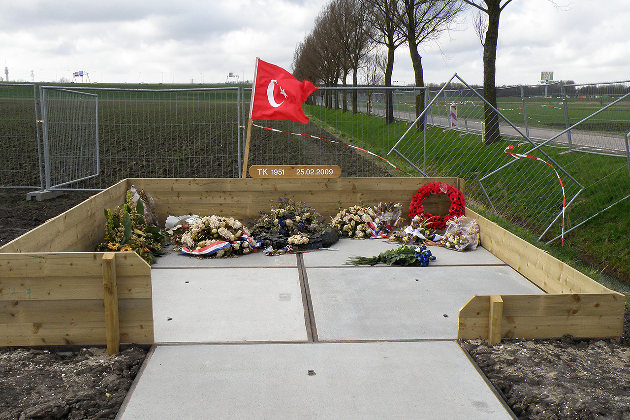 Temporary memorial area close to the crash site of Turkish Airlines Flight 1951. Does not exist any more.